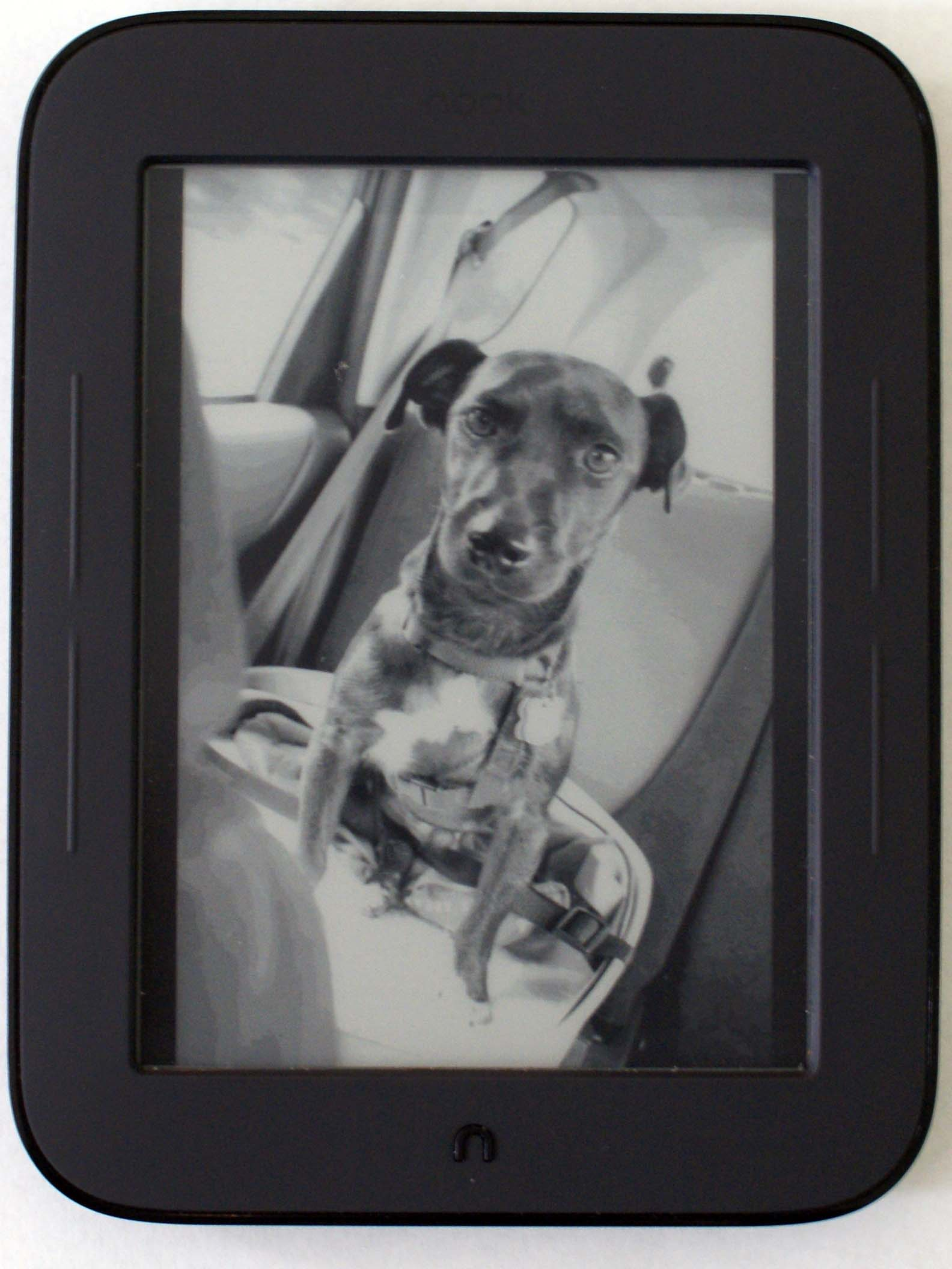 The Nook Simple Touch showing a photograph I own the copyright to (my dog, Francis, if you're curious), on a white background.